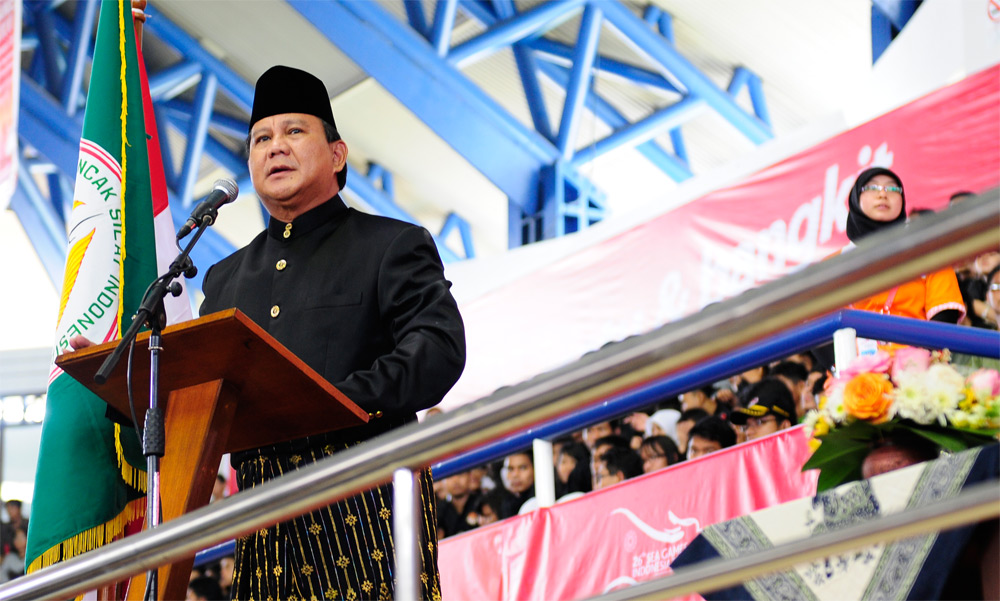 Prabowo's passion in martial arts led him to chair Indonesia's pencak silat organisation, IPSI. In this picture, Prabowo opens the 2011 Pencak Silat SEA Games tournament held in Taman Mini, Jakarta.